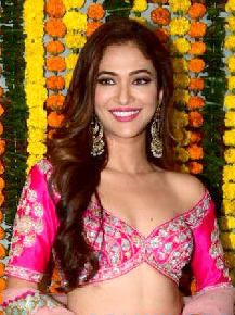 Ridhima Pandit at Ekta Kapoor’s Diwali bash, 2019